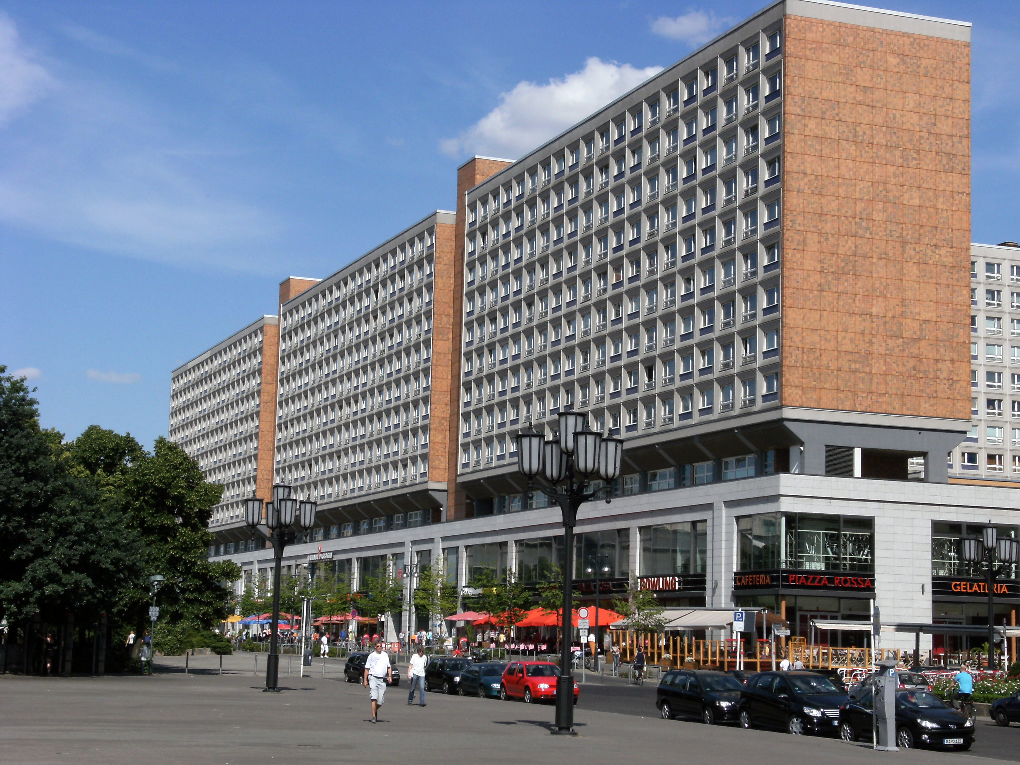 Berlin in june 2008